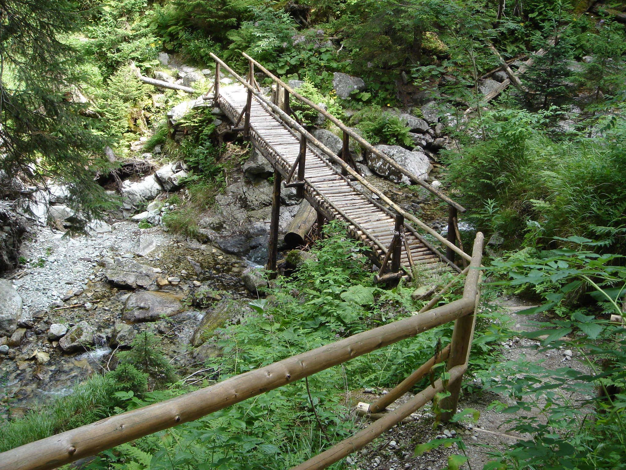 bridge under Kmeťov waterfall, High Tatras, Slovakia